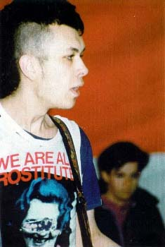 Jualma Suarez